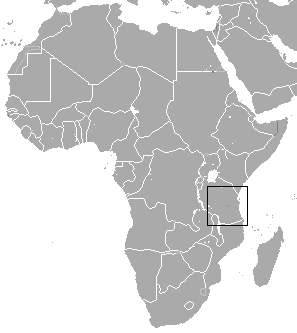 Grey-faced Sengi (Rhynchocyon udzungwensis) range